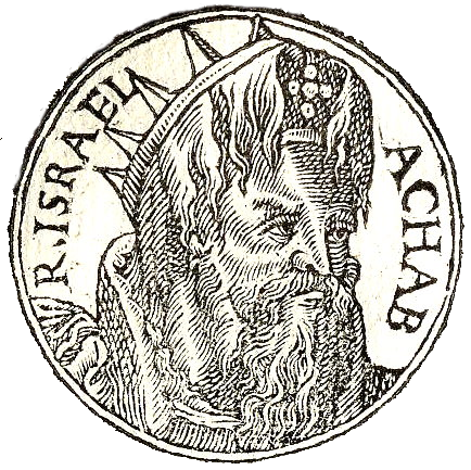 Description